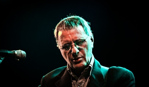 Photo of Steve Harley by Simon Watson Photography.